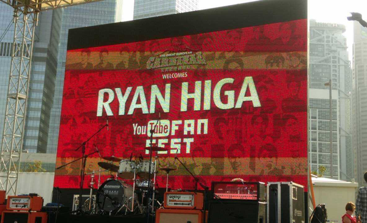 Meet-and-Greet for famous YouTuber Ryan Higa, organised by YouTube Fan Fest.